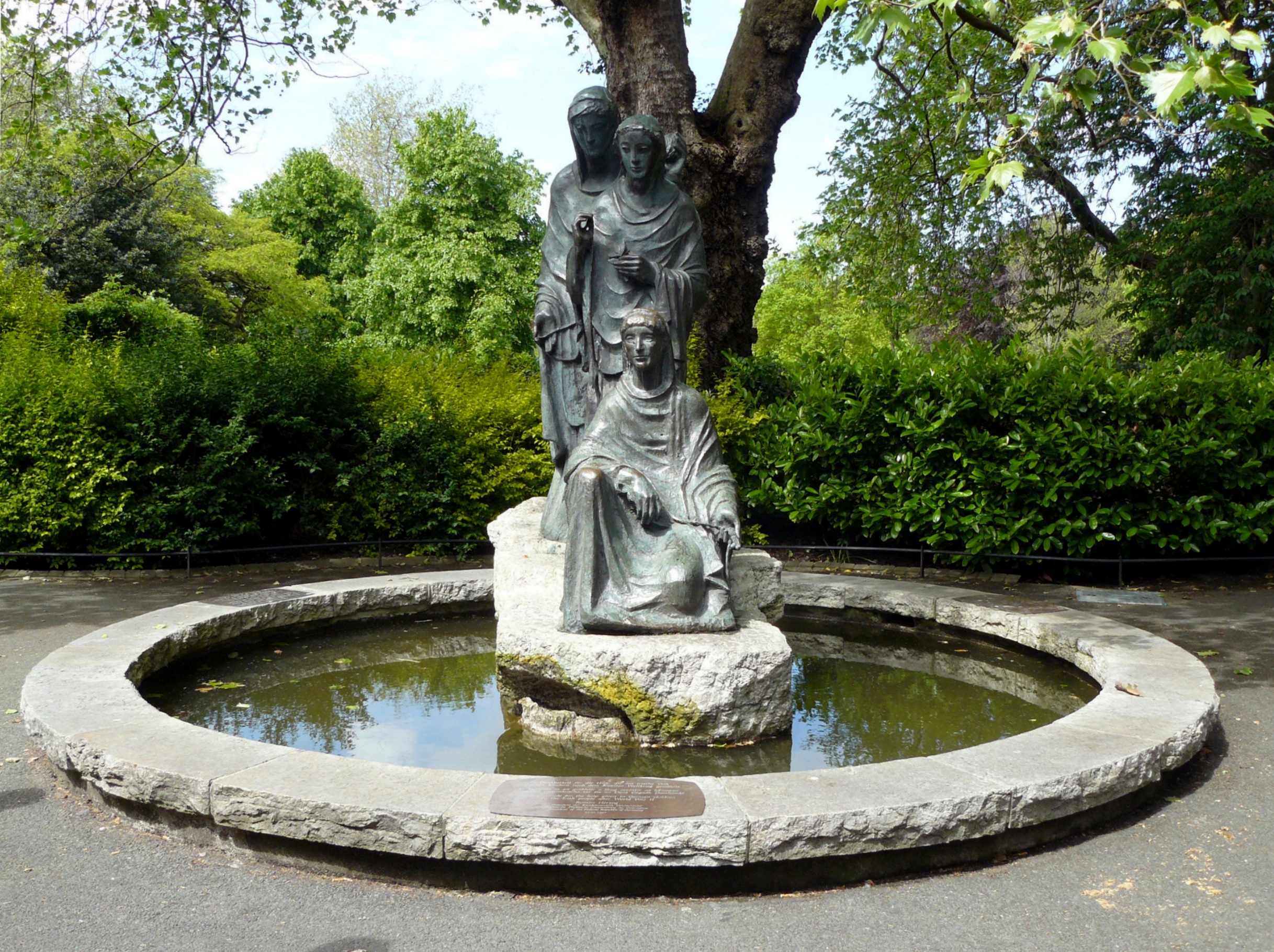 Fountain with the Three Fates in St Stephen's Green, Dublin